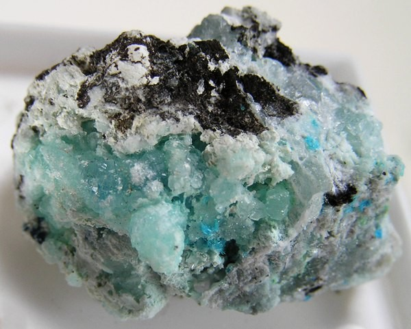 Guanacoite, Arhbarite Locality: El Guanaco Mine, Guanaco (Huanaco), Santa Catalina, Antofagasta Province, Antofagasta Region, Chile (Locality at ) Size: 2.3 x 2.1 x 1.6 cm. Guanacoite is a very rare secondary copper, magnesium arsenate found in only two localities, worldwide. It was only described in 2003. This specimen is from the Type Locality - the El Guanaco Mine of Chile and features sky-blue guanacoite needles to 2 mm scattered on powder-blue globules of arhbarite, another very rare arsenate.